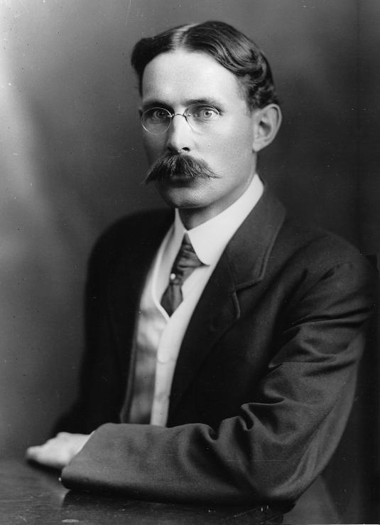 Photograph, Frederick G. Todd, Montreal, QC, 1909, Wm. Notman & Son, Silver salts on glass - Gelatin dry plate process - 17 x 12 cm